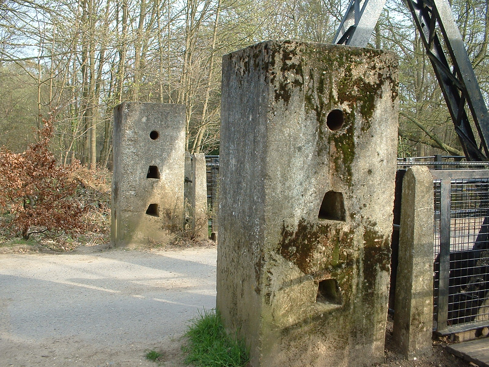 Roadblock on the north side of bridge over the Basingstoke canal at Aldershot. OS reference SU852526